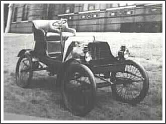 The first auto ever produced by H. H. Manufacturing Co. in Syracuse, New York.